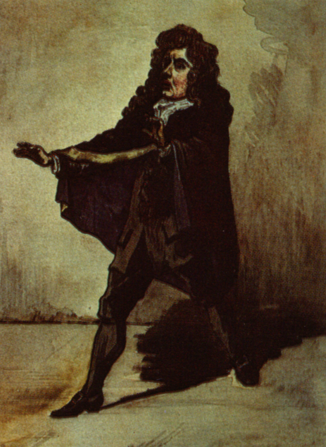 English Restoration actor Thomas Betterton as Hamlet, c1661